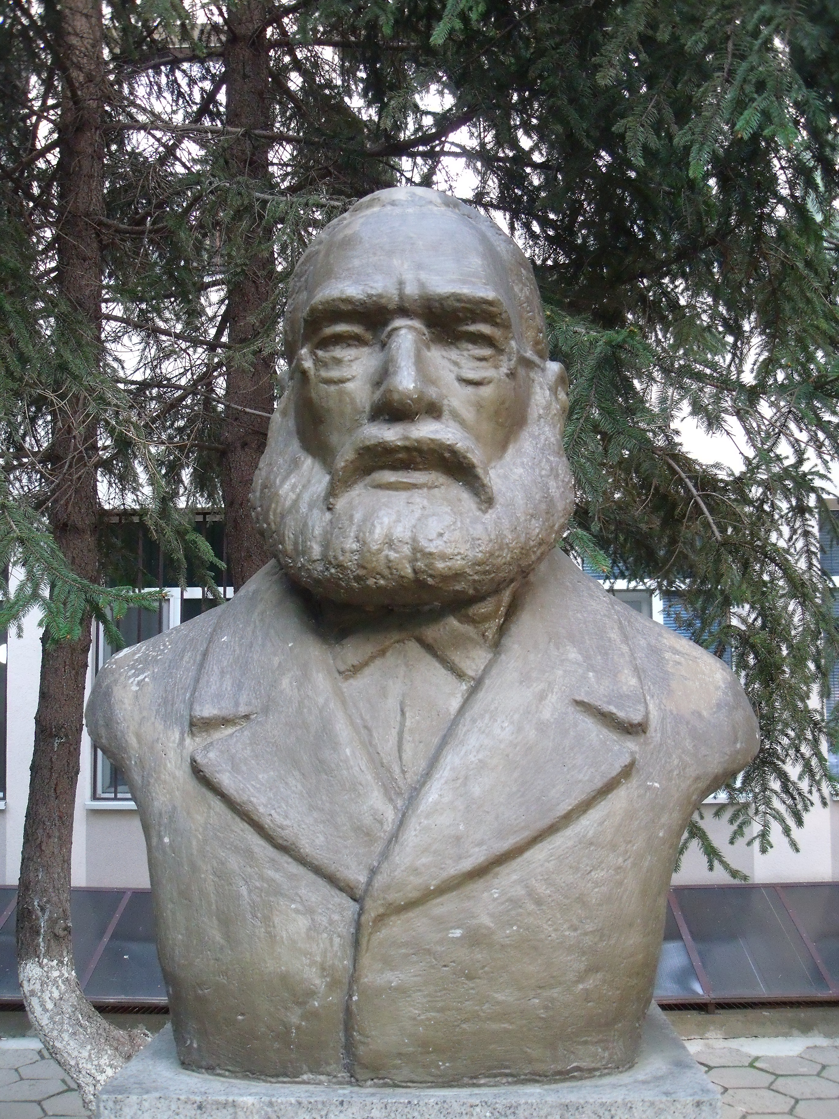 Monument of Ivan Seliminski, philosopher, scholar, teacher and medical doctor, in Sliven, Bulgaria